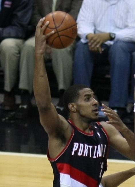 LaMarcus Aldridge playing with the Portland Trail Blazers